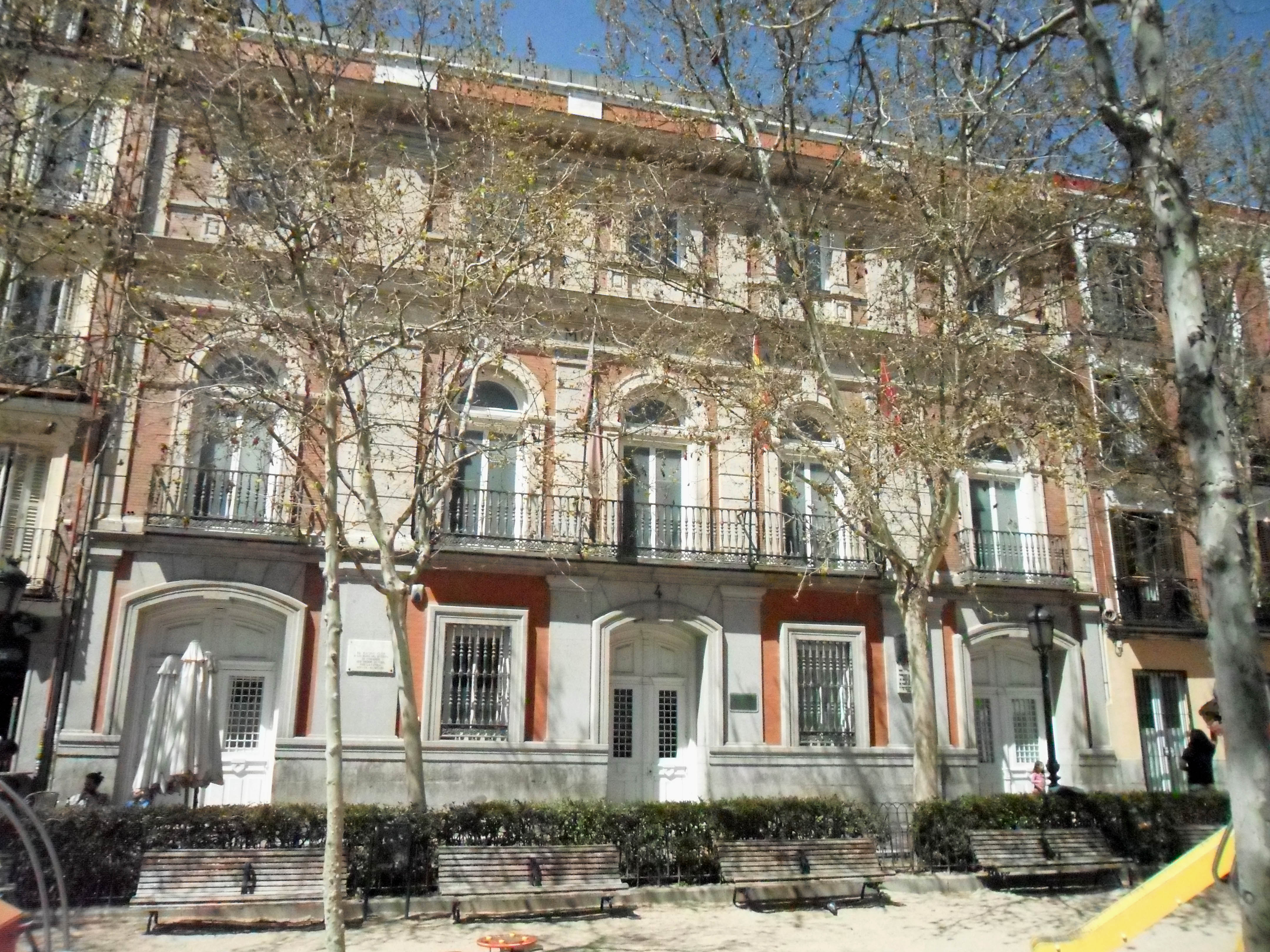 Façade of Chamberí District Hall in Madrid (Spain), at 4th Plaza de Chamberí (square). Building was designed by José López Sallaberry and built in the 1890's.